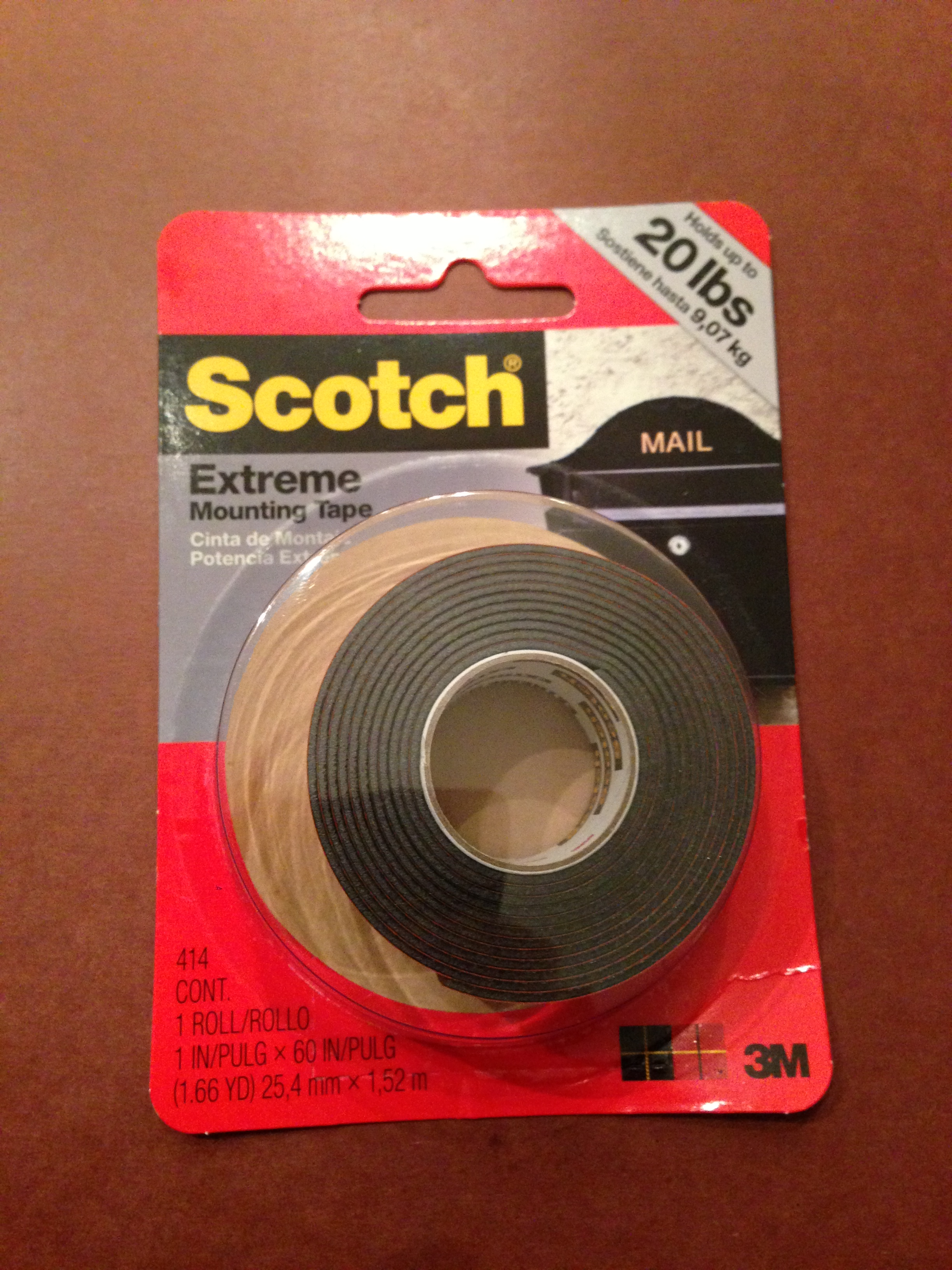 Scotch Double Sided Tape